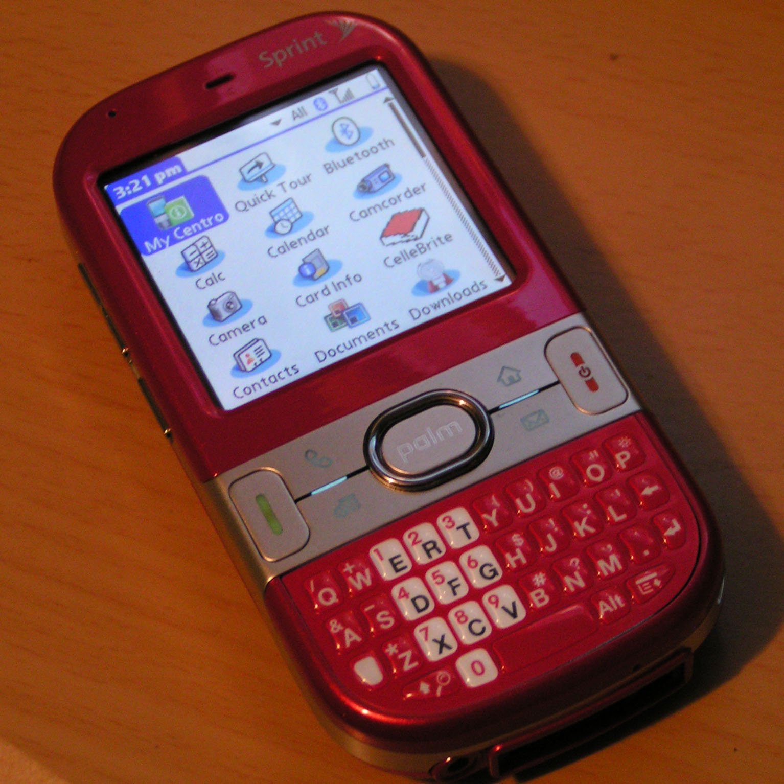 a photo I took of a red Palm Centro for the wikipedia article.